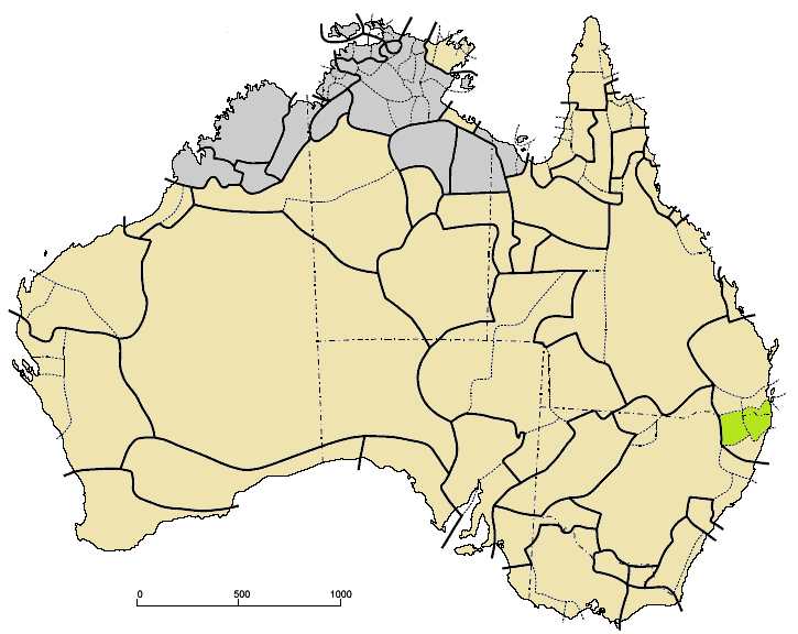 Bandjalangic languages (green) among other Pama–Nyungan (tan)